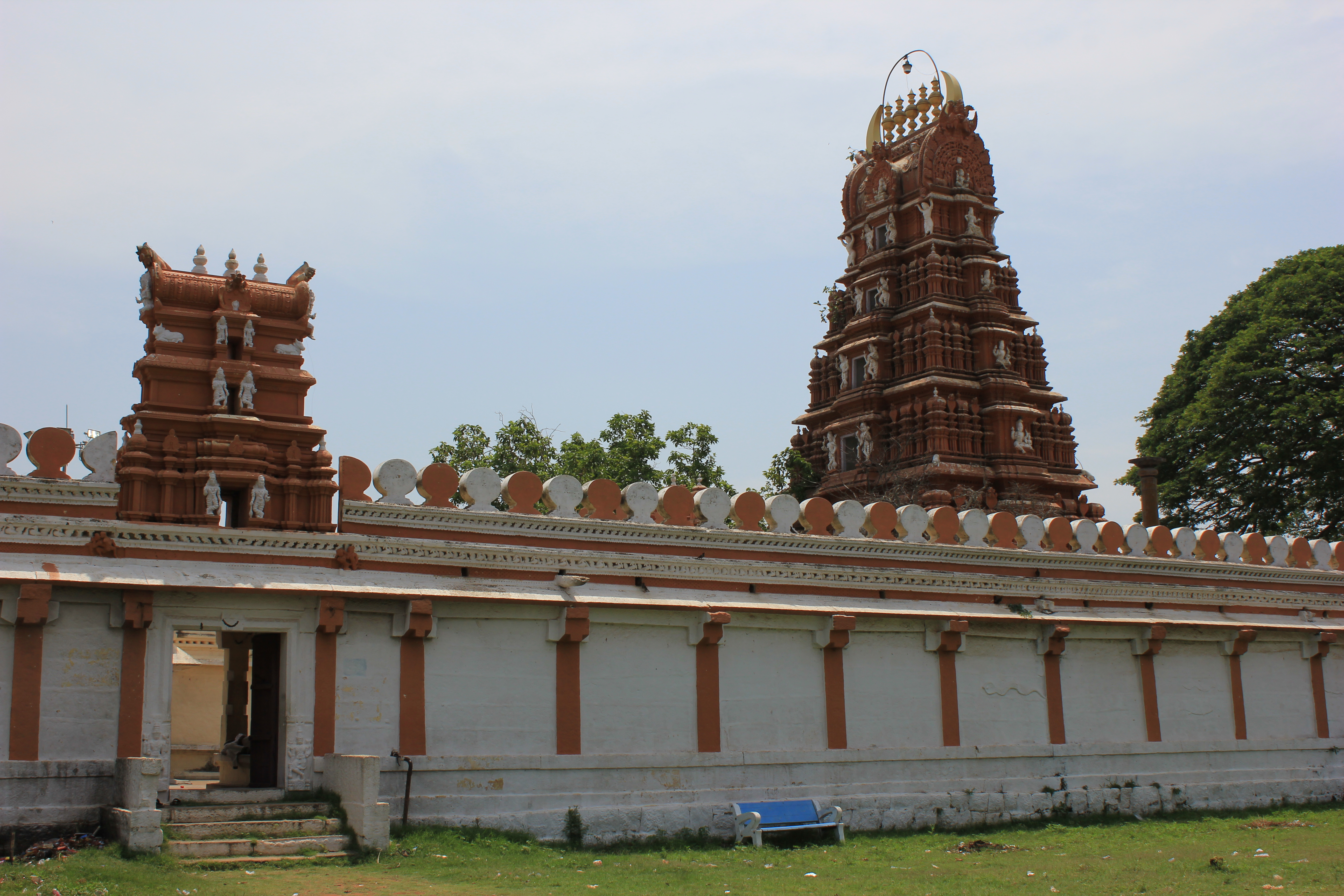 This Dravidian style temple is located in Hale Yadatore, Mysore district, Karnataka state, India. The original consecration of the temple is credited to the Western Ganga Dynasty around the 10th century